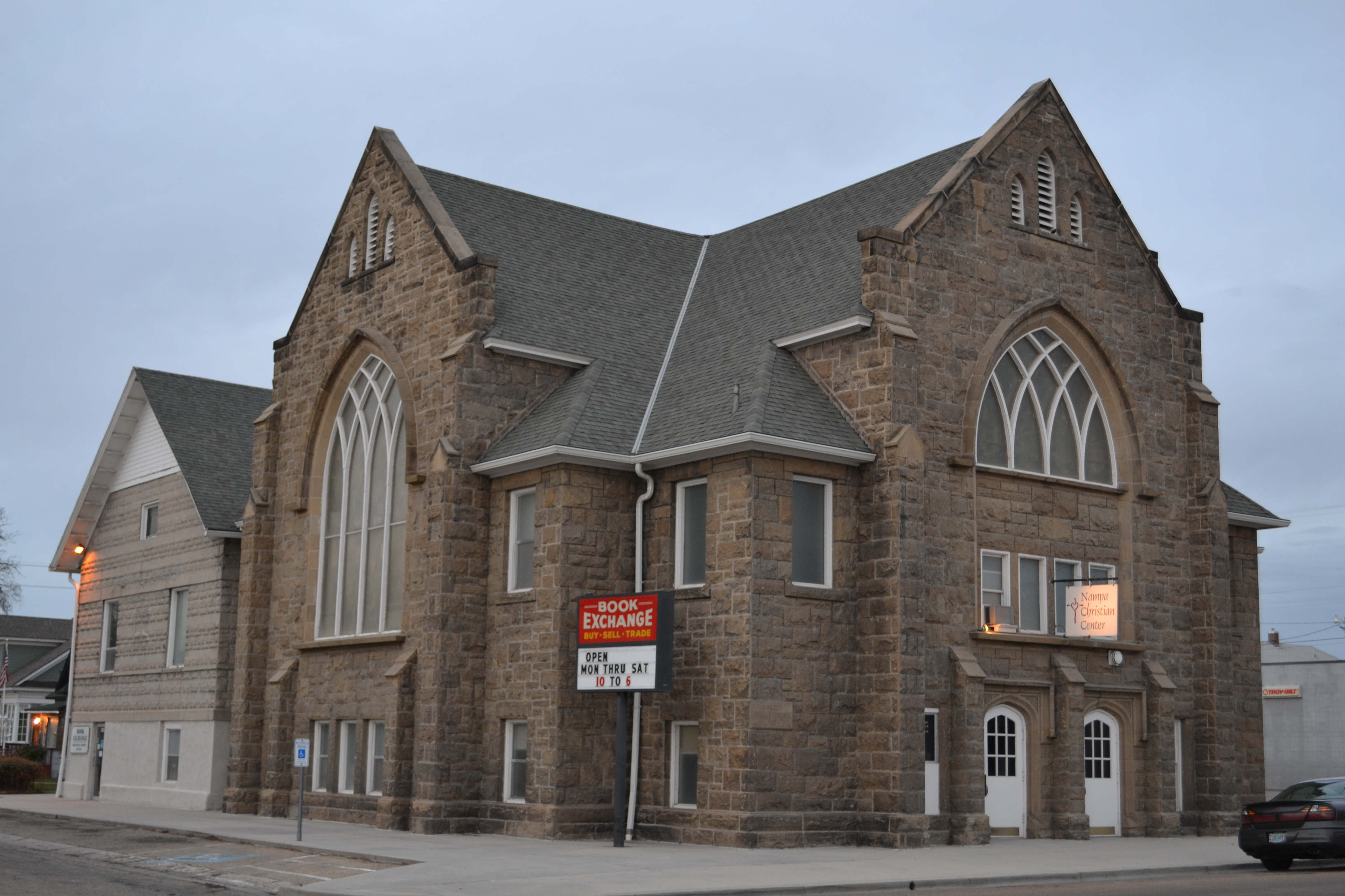 Now a Christian Church and book exchange.